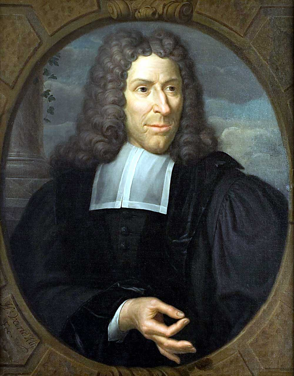 Frederiik Dekkers also: Friedericus Deckers (1648-1720) Dutch physician